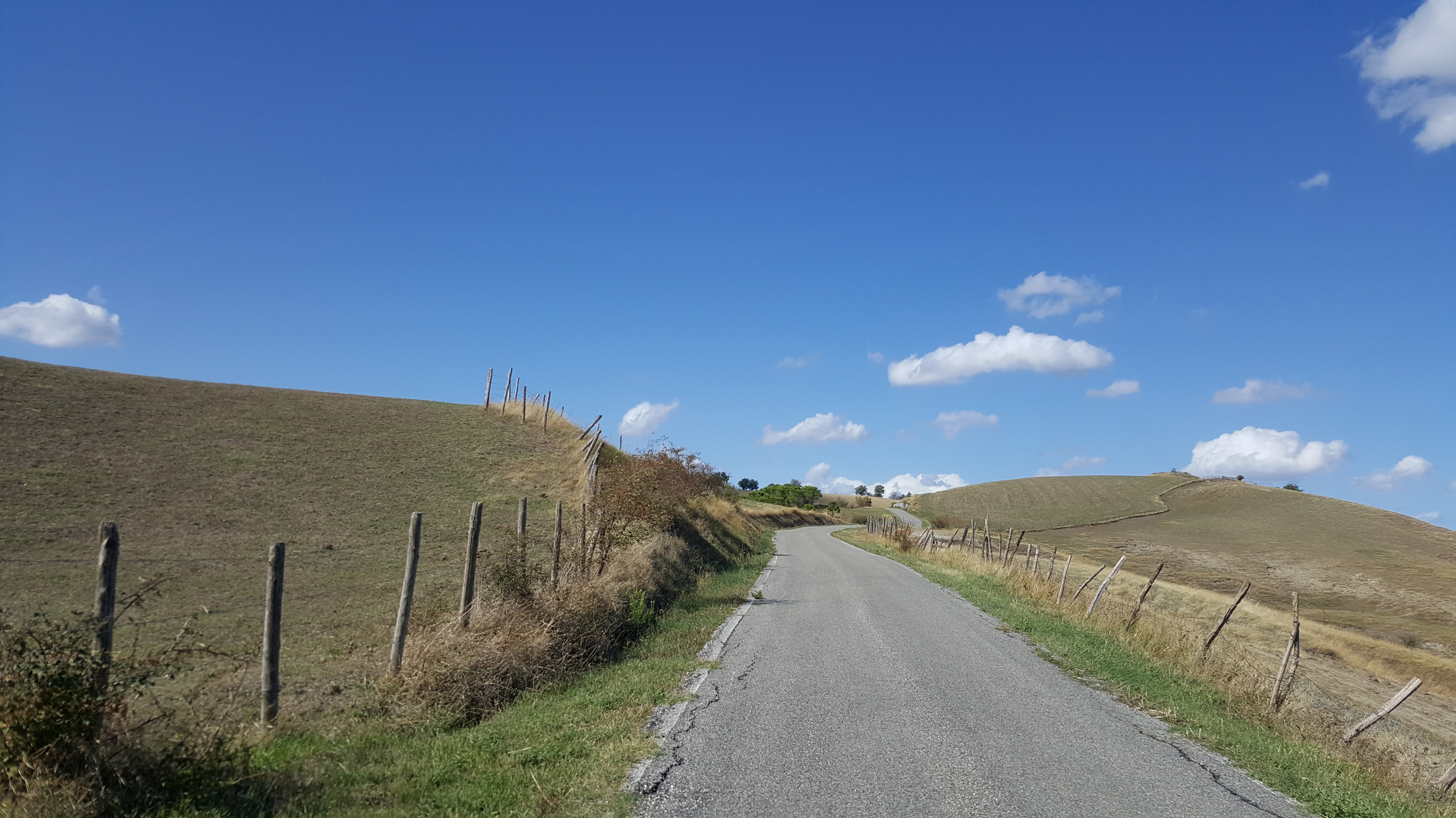 This is a photo of a monument which is part of cultural heritage of Italy.